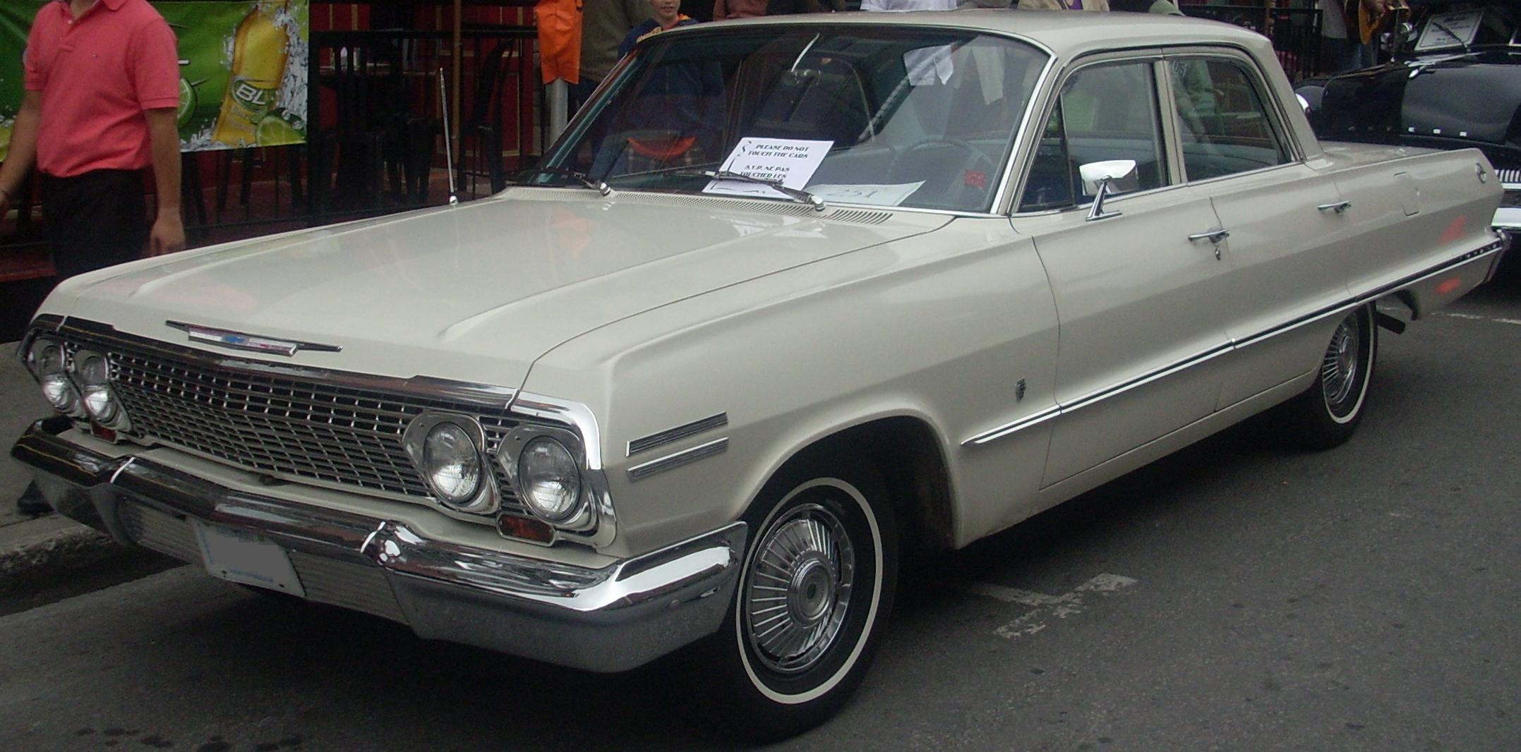 Chevrolet Impala photographed in Ottawa, Ontario, Canada at the Byward Market Auto Classic 2009.